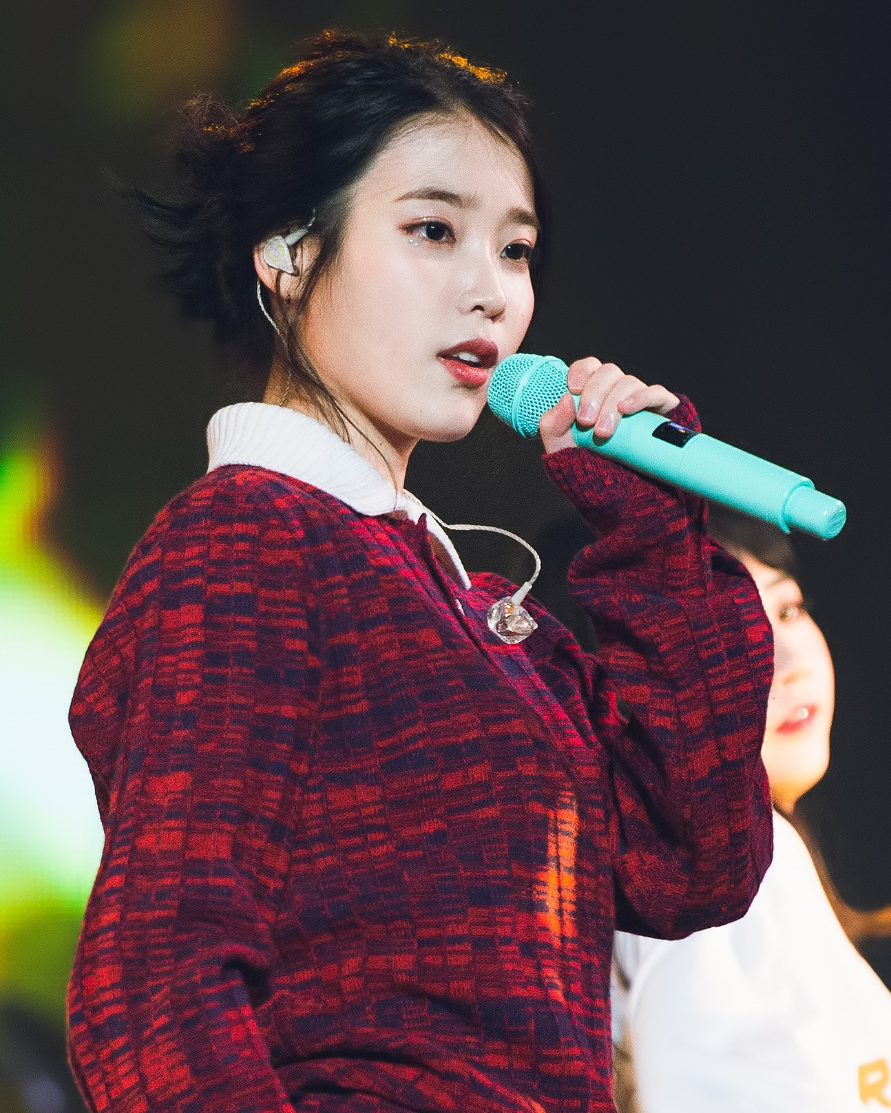 IU at her Gwangju Concert, 10 November 2018